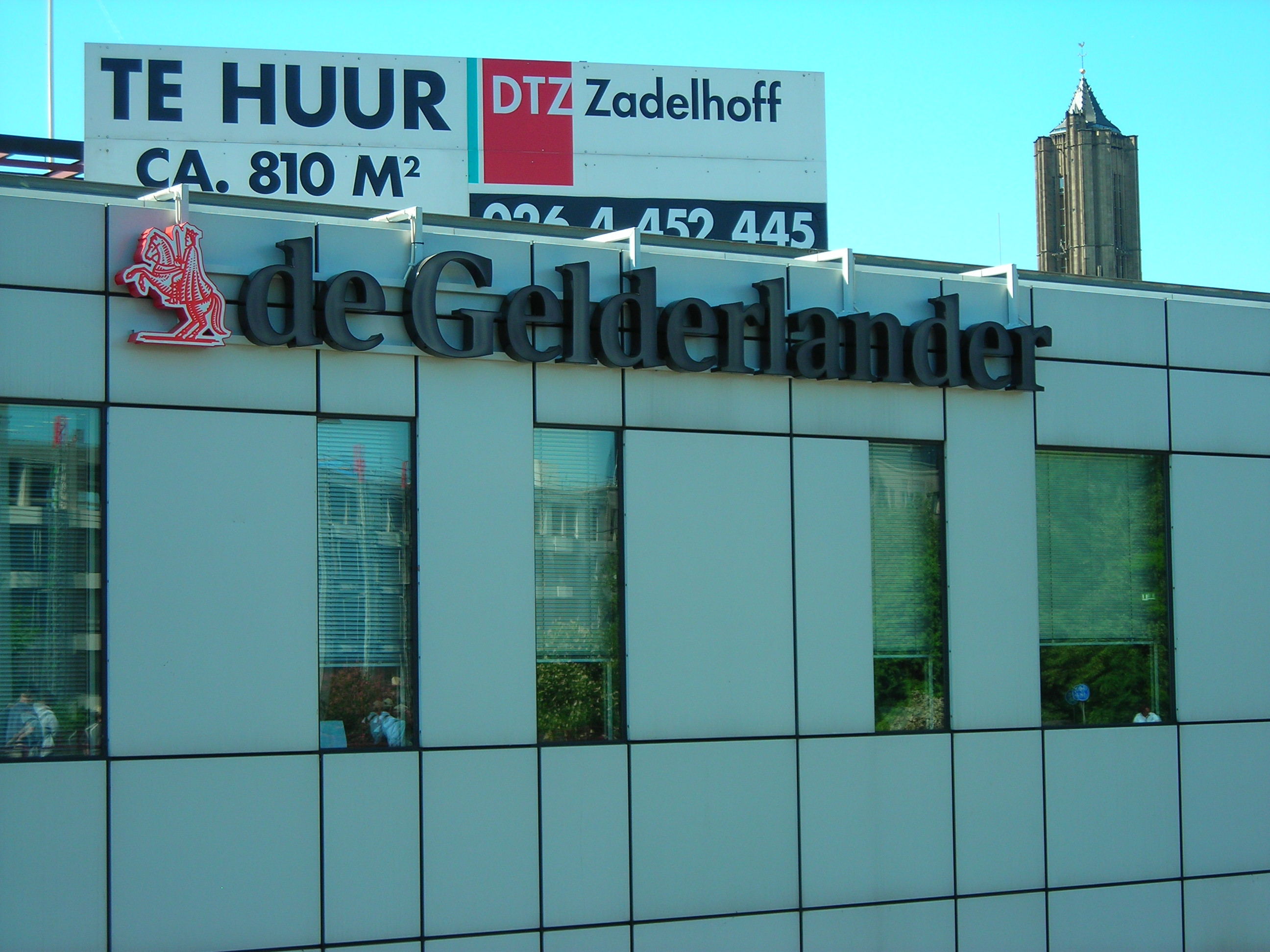 Logo on a De Gelderlander office building